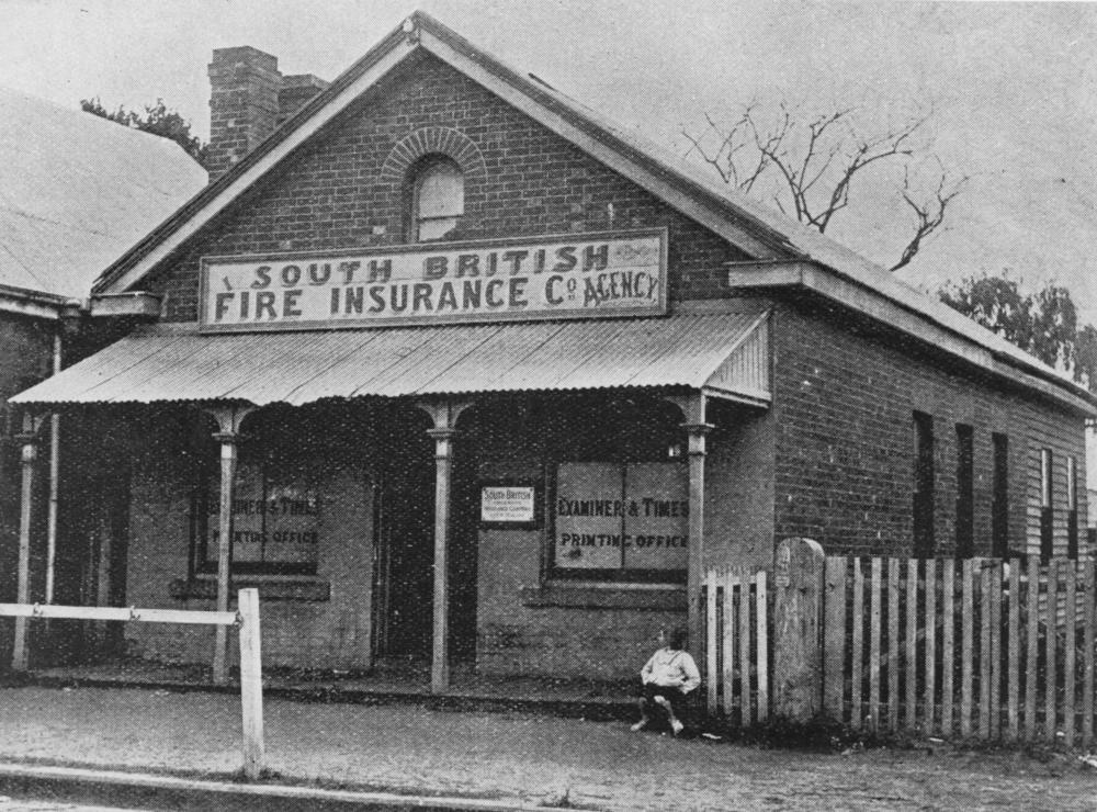 Examiner and Times Newspaper office, Warwick, ca. 1901. This building was situated opposite Town Hall in Fitzroy Street. The proprietor was Samuel Irwin and the editor and business manager was Mr H. Sterne. (Description supplied with photograph). The building is constructed of bricks with a front verandah. Both front windows have signwriting to state the name of the Examiner and Times Printing Office. A large advertising sign above the verandah advises the office is also an agency for South British Fire Insurance Co.